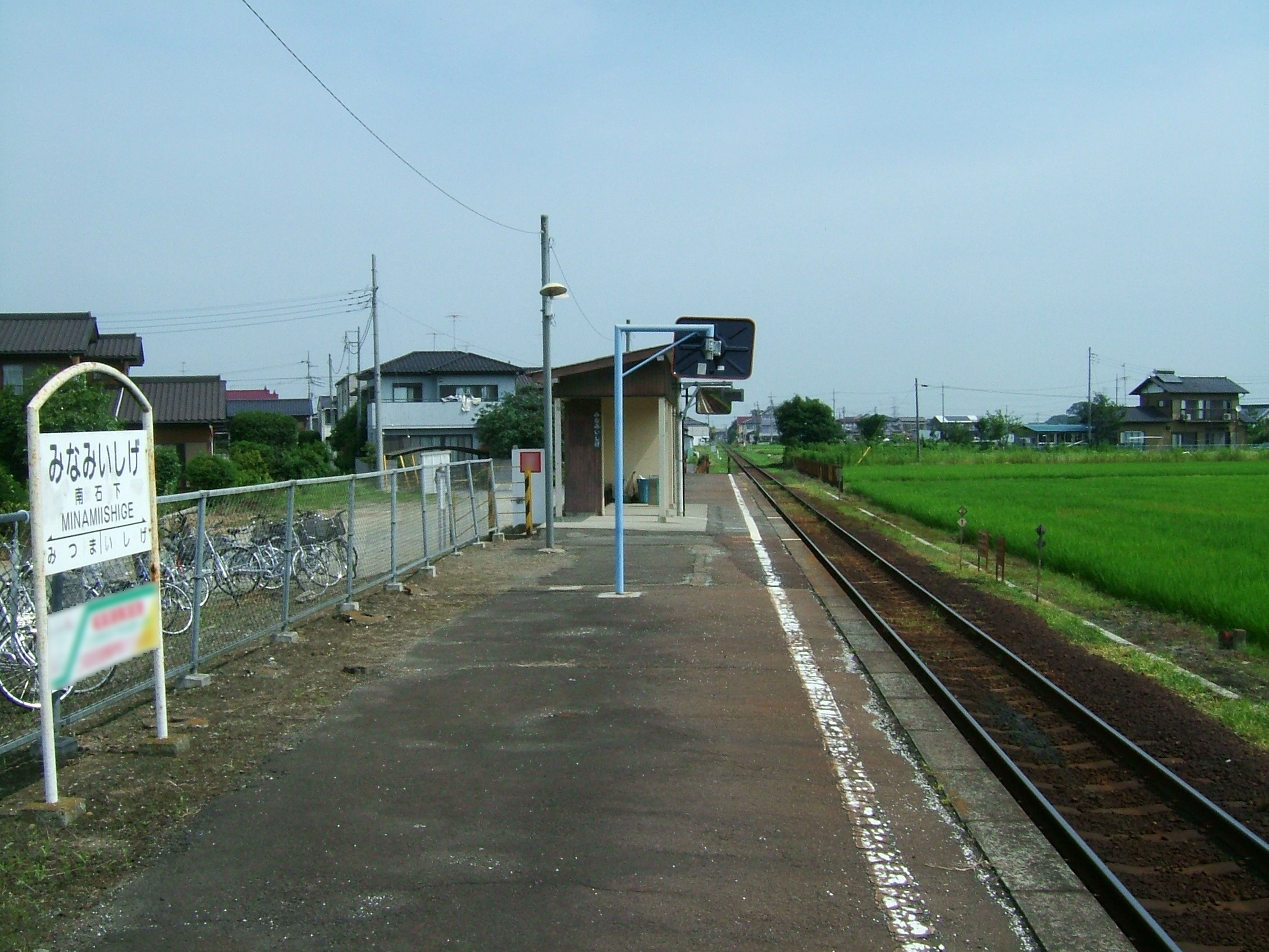 Minami-Ishige Station platform (Kanto Railway Jōsō Line)